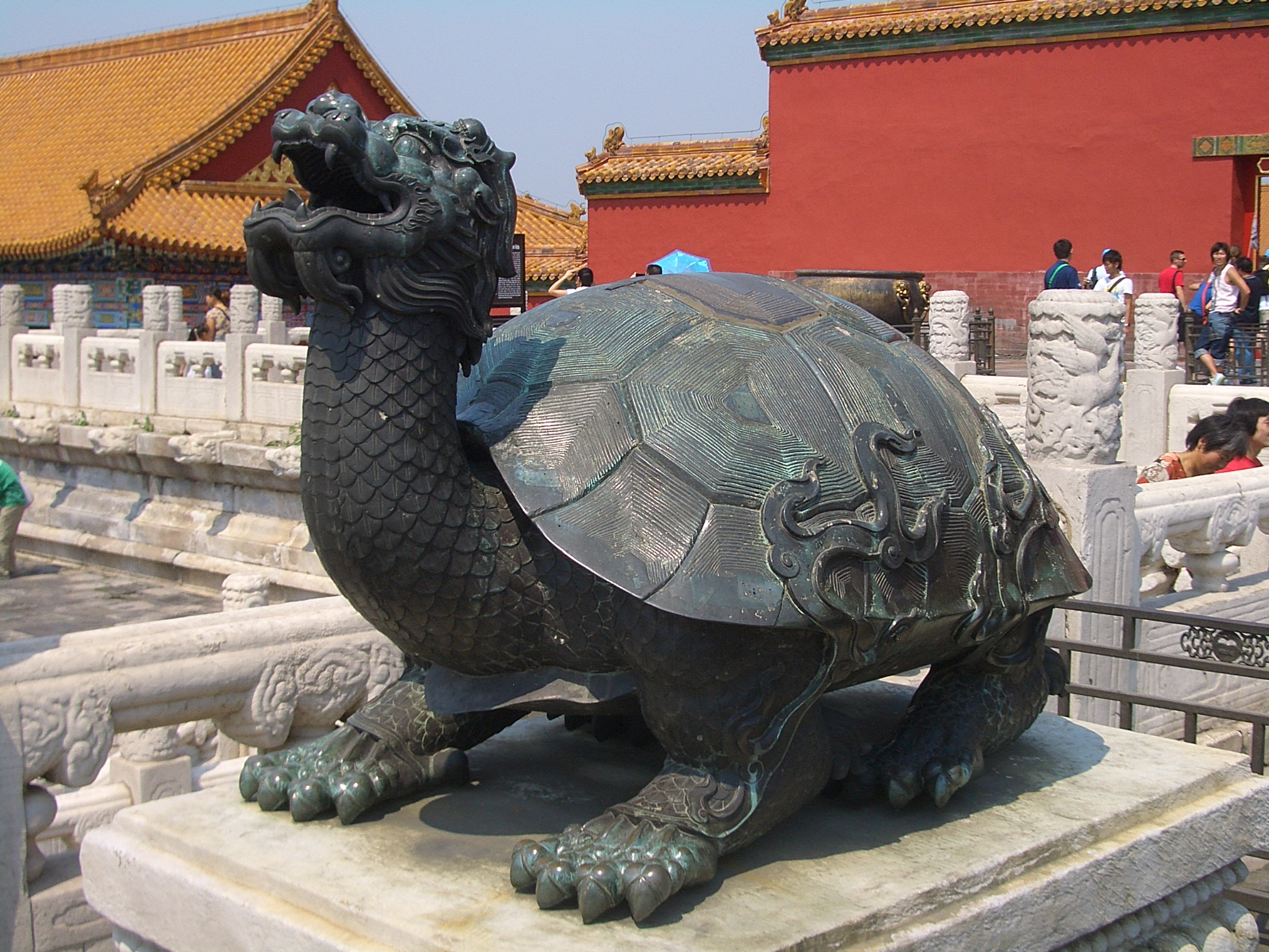 A tortoise statue in the Forbidden City, Beijing